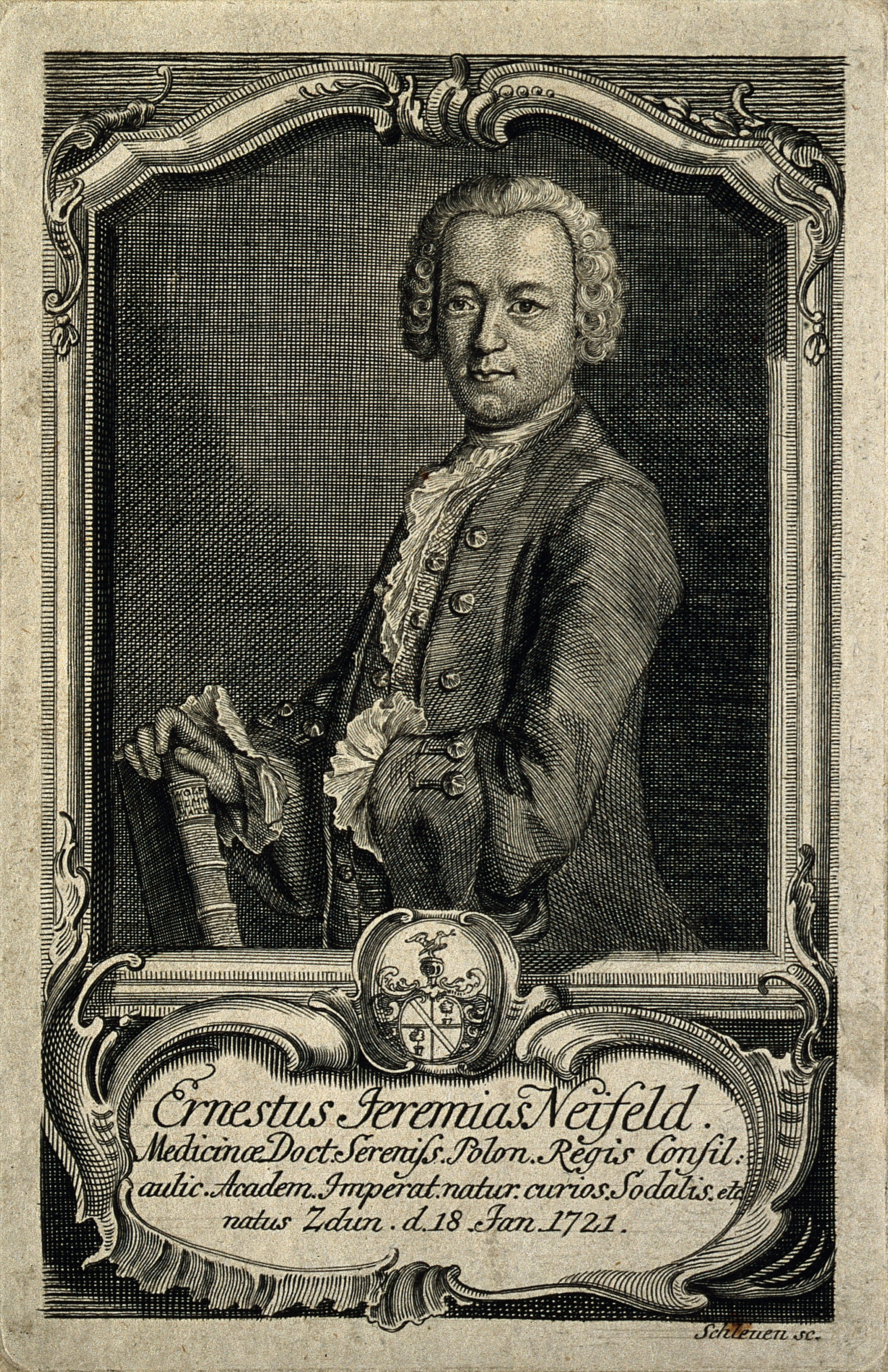 Ernst Jeremias Neifeld. Line engraving by Schleuen. Ernestus Jeremias Neifeld Medicinae Doct. Serenifs.Polon.Regis Confil aulic Academ Imperat natur curios Sodalis etc. natus Zdun d18 Jan 1721 Iconographic Collections Keywords: portrait prints; engravings; Ernst Jeremias Neifeld